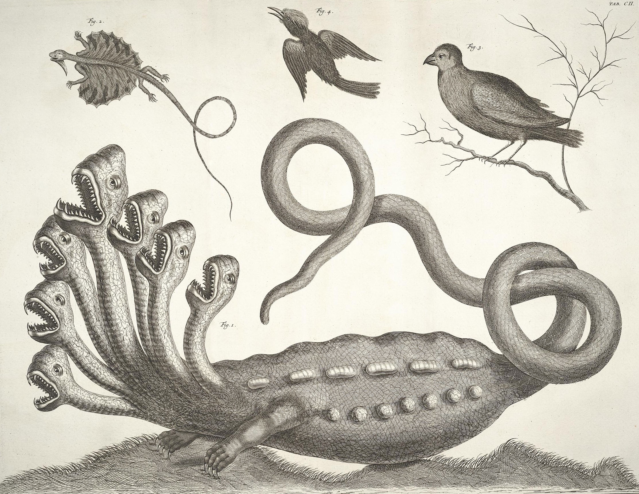 The images above come from Volume One of 'Locupletissimi Rerum Naturalium Thesauri' by Albertus Seba, 1734